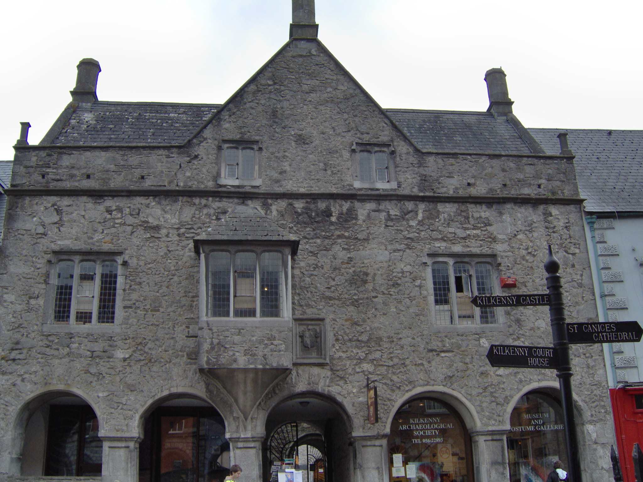 Rothe House